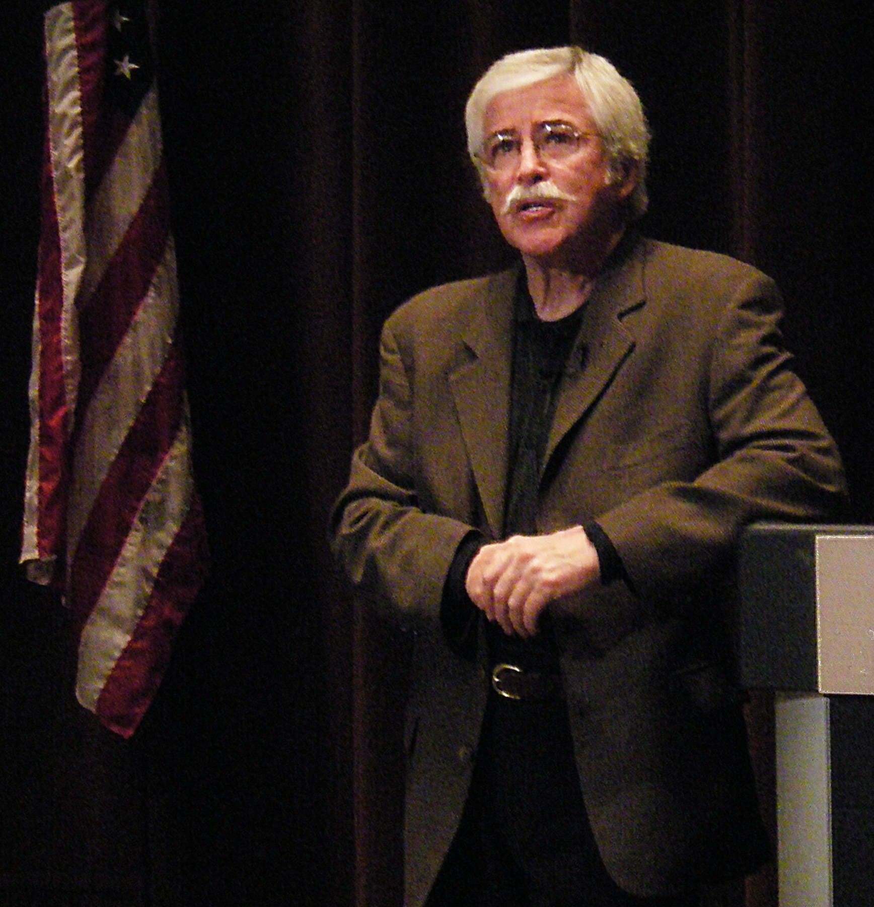 Author William Least Heat-Moon speaking in the Microsoft Auditorium of the Central Library, Seattle, Washington, 10 November 2008